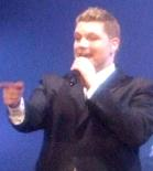 Americand Idol contestant Michael Sarver at the American Idol Concert in Tulsa, Oklahoma.